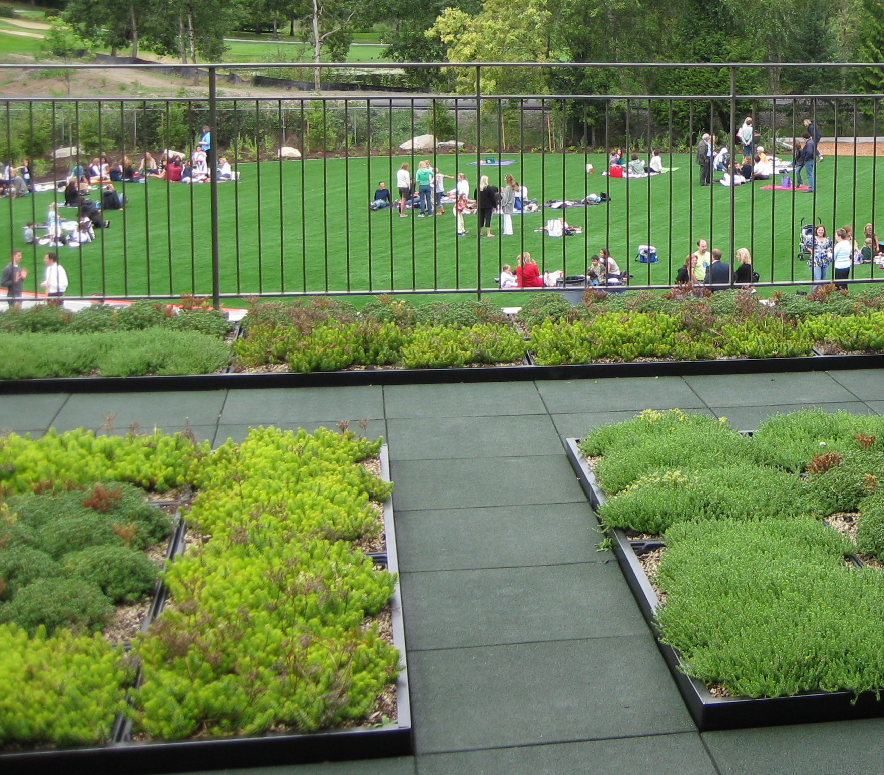 Location: St. Thomas School, Medina, WA, USA. Planters on roof in containers for ease of installation and protection of roof. The plants are accessible to students and teachers. Beyond is the school's private playground.